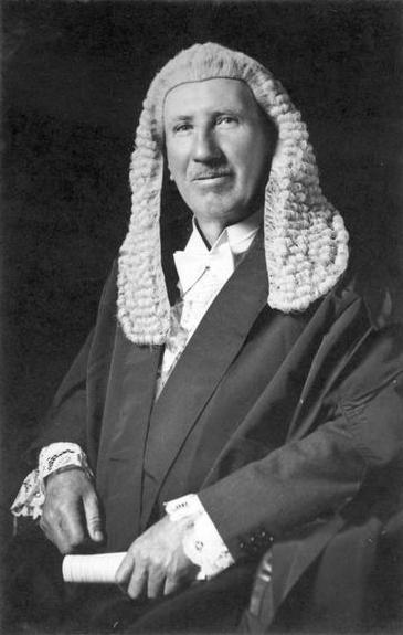 George Mackay